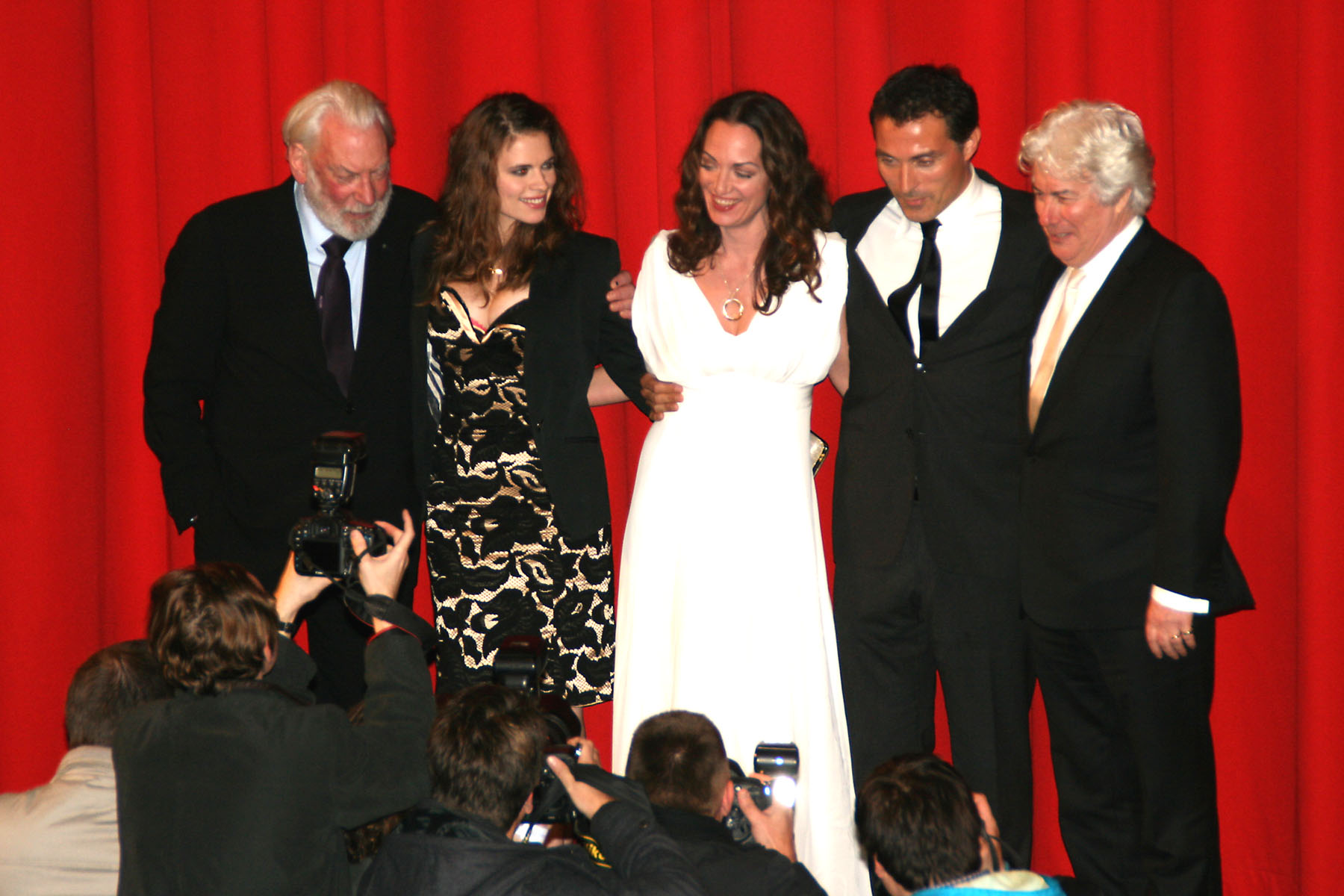 The Pillars of the Earth. Premiere. From left to right: Donald Sutherland, Hayley Atwell, Natalia Wörner, Rufus Sewell, Ken Follett